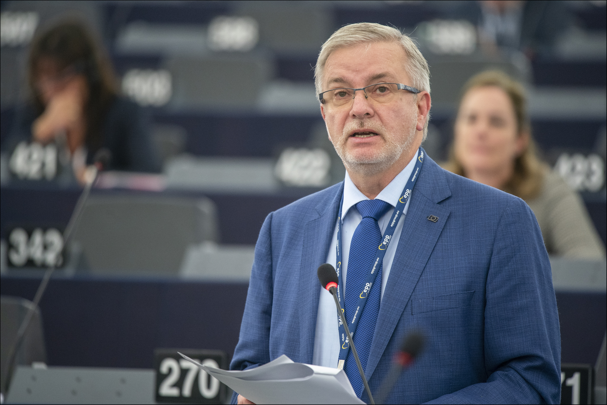 Michael Gahler during a debate calling for measures against Turkey following military operation in Syria in the European Parliament